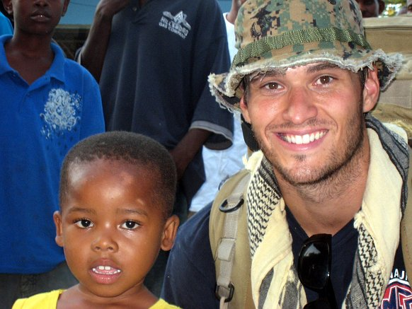 Jake Wood with a victim of the Haiti earthquake